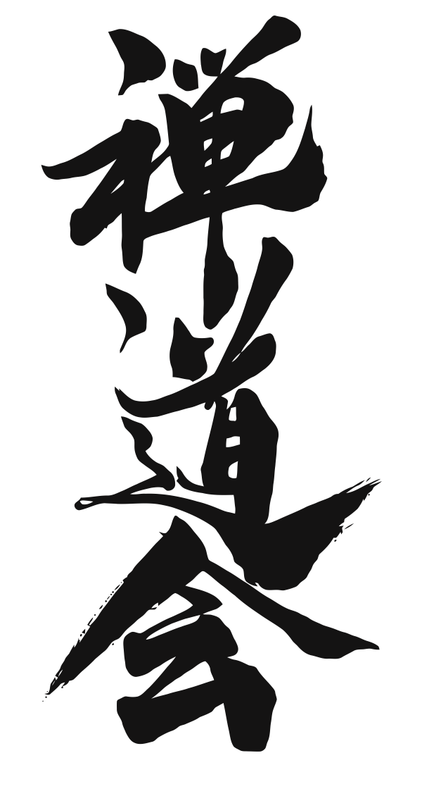 Zendokai Kanji new